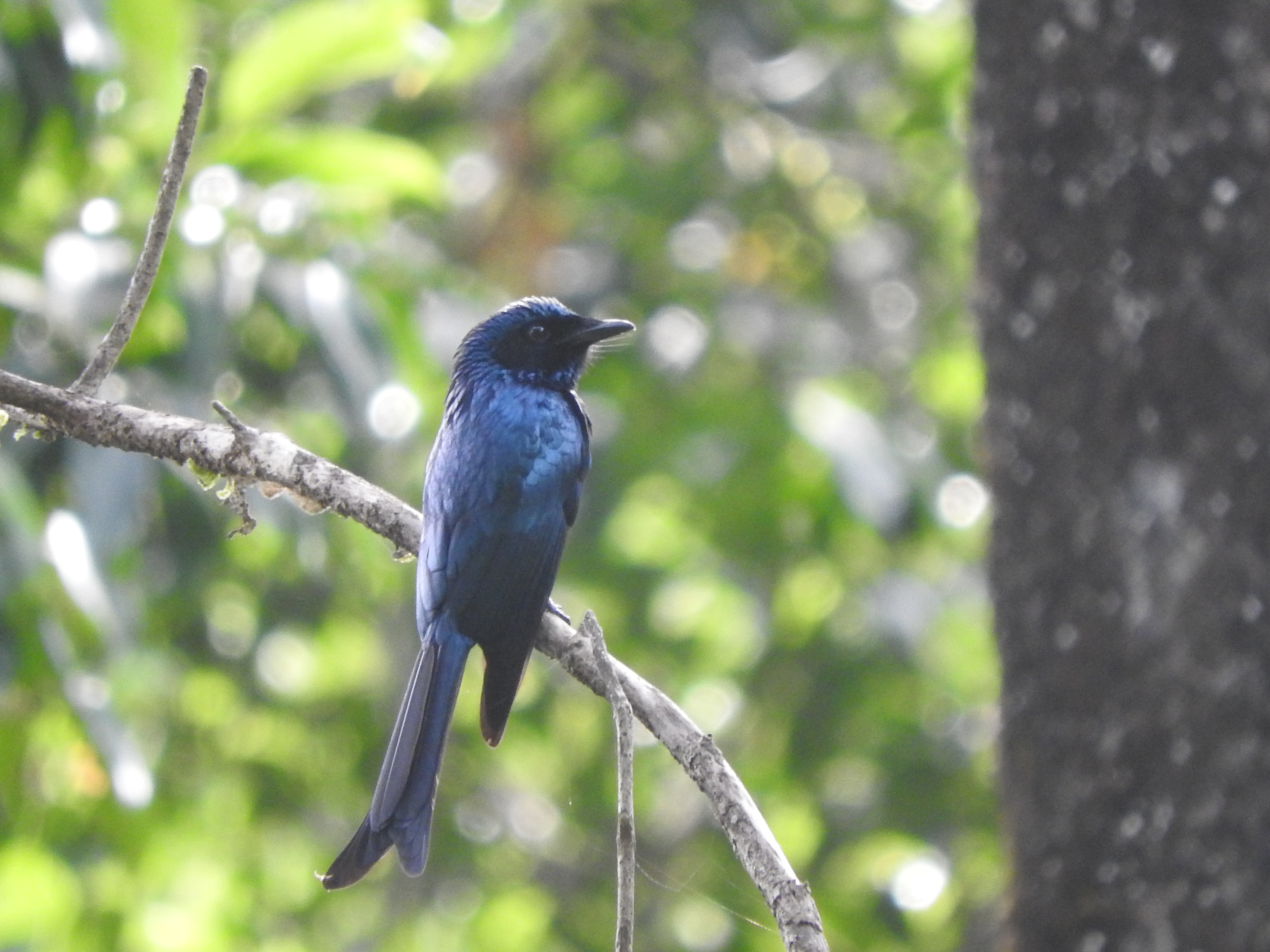 This the bronzed drongo was just majestic and is seen as a symbol of mighty western ghats!